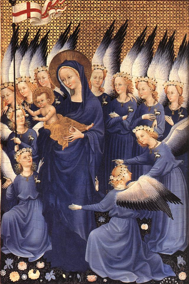 The Wilton Diptych (c.1395-1399) is a portable altarpiece taking the form of a diptych. It was painted for King Richard II.